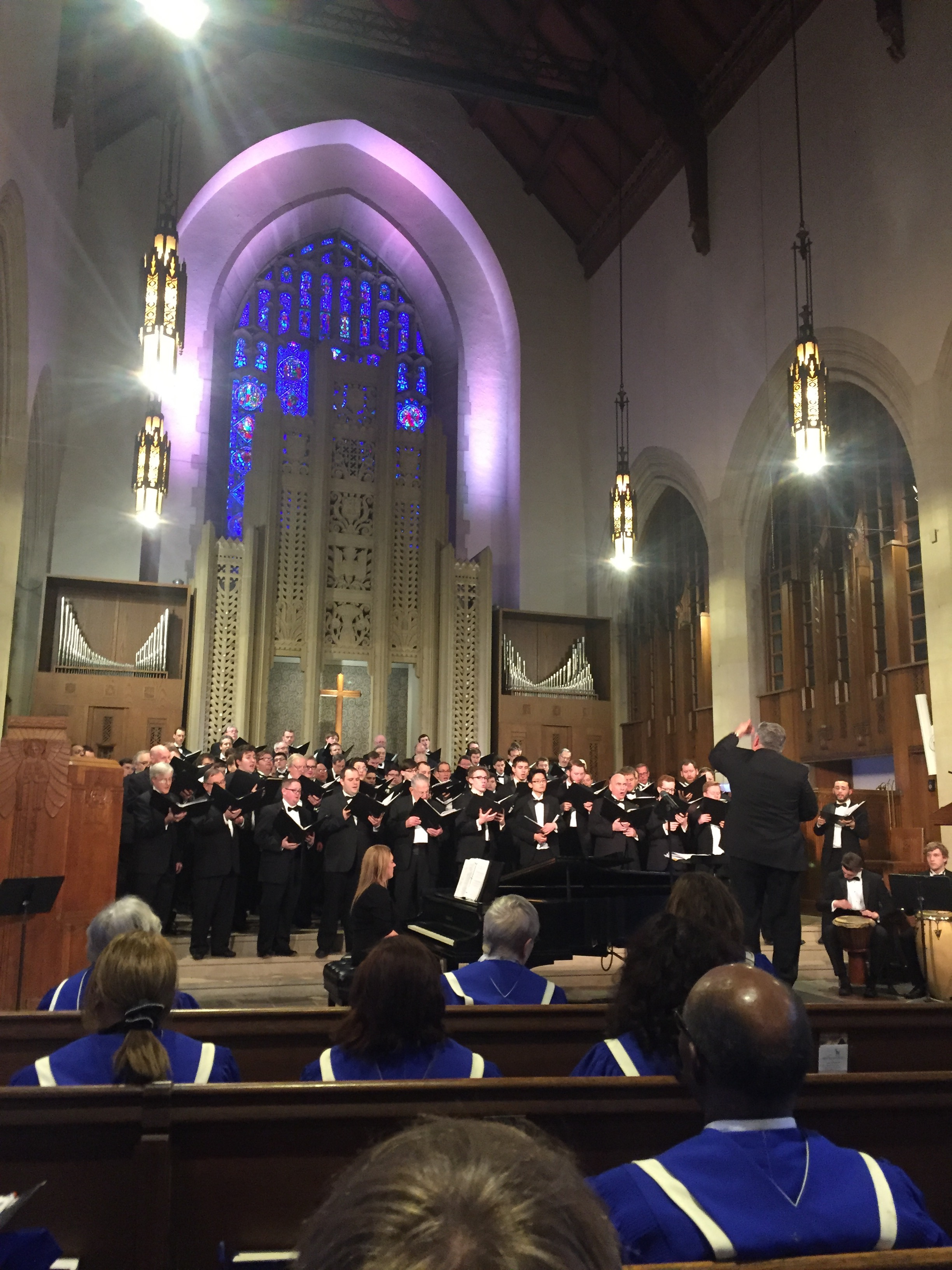 Male Choir inside the sancturary of the First Baptist Church of Greater Cleveland